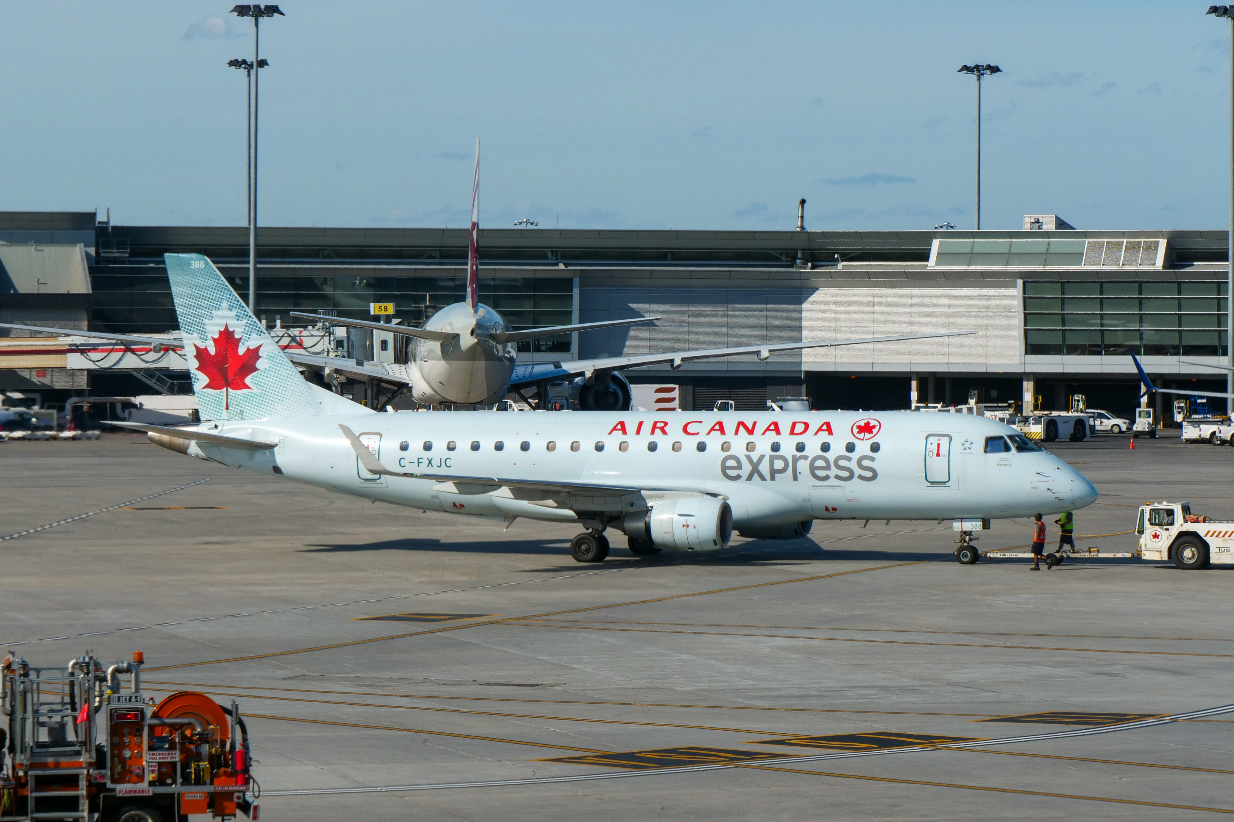 Air Canada Express E175 at Montréal-Pierre Elliott Trudeau International Airport.